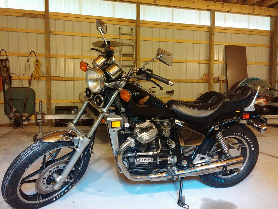 Image of a 1983 Honda CX650C